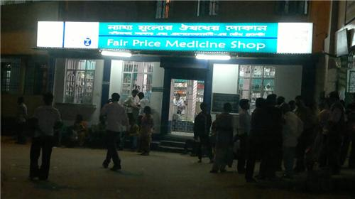 Jalpaiguri